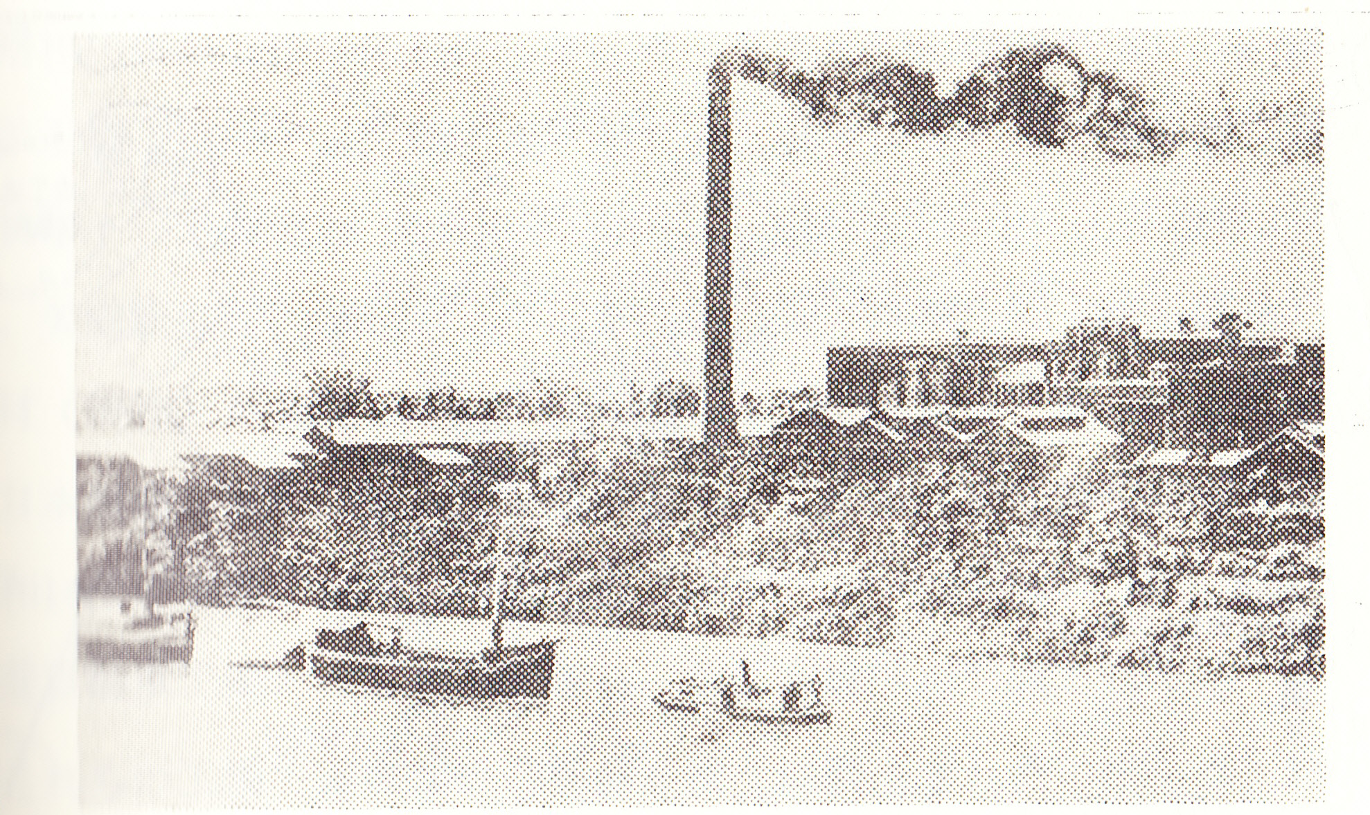 The factory of Meiji Sugar.